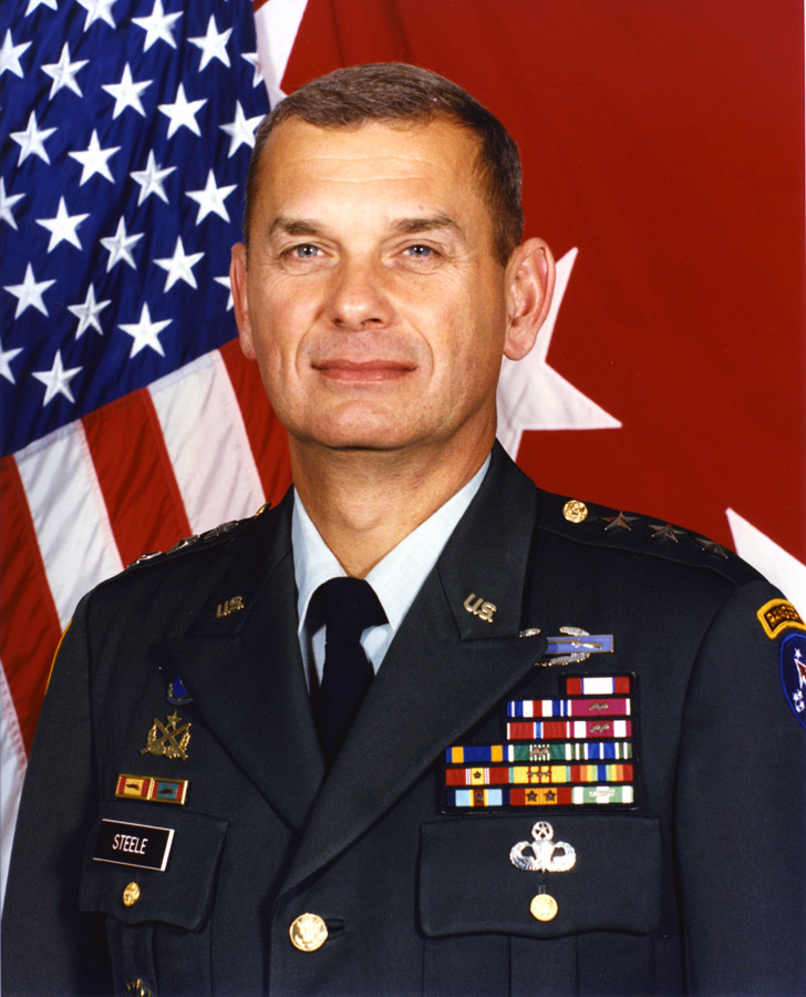 LTG William M. Steele from [1]